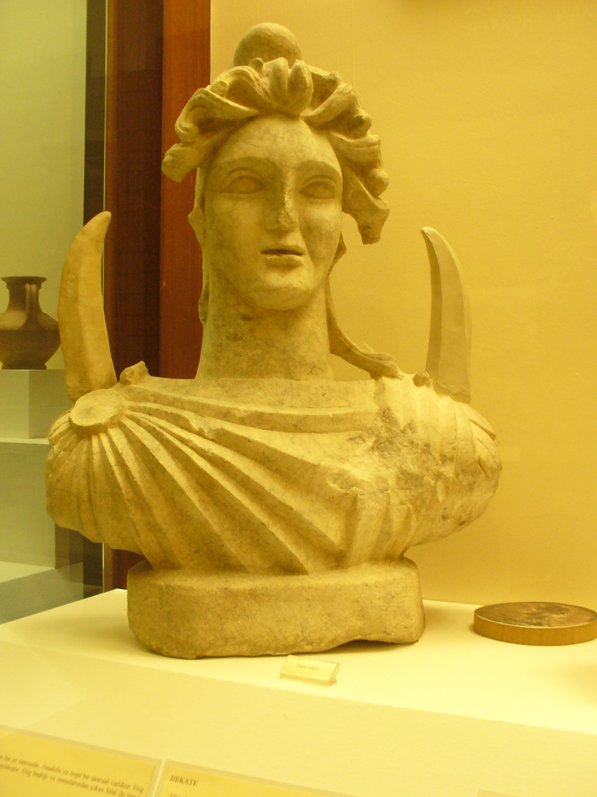 Photo of a bust of the Phrygian god Men, on display at the Museum of Anatolian Civilizations in Ankara.